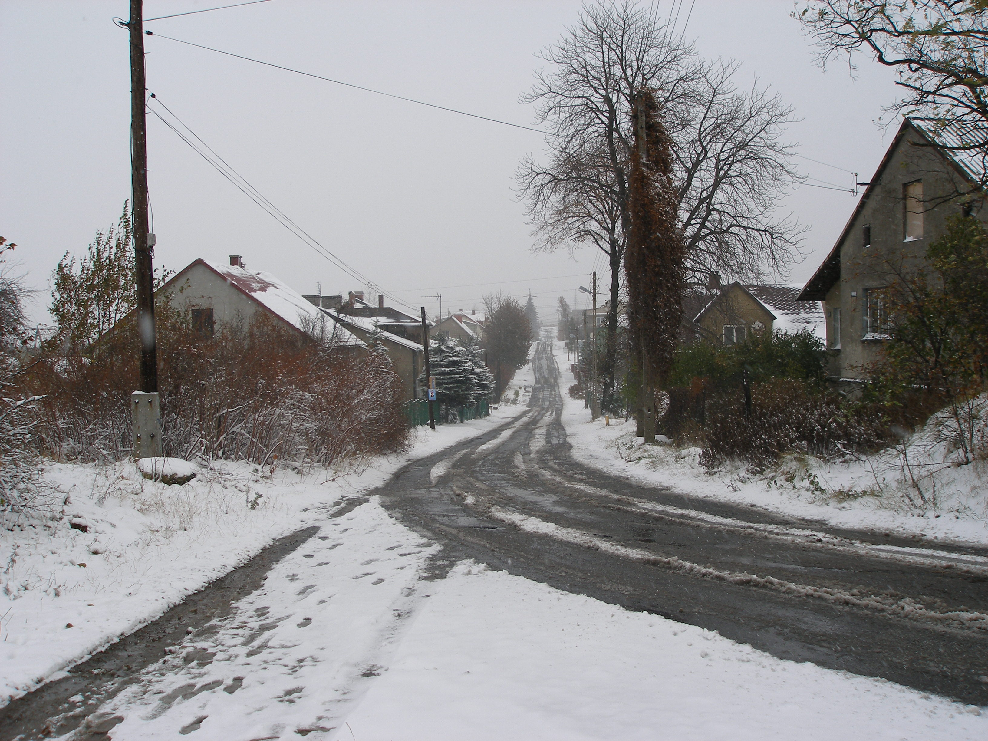 old part of Bukowno